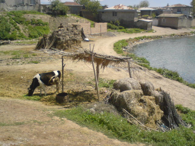 A cow near a small hut and the lake in village of Turang Tappe, Iran. View from the archaeological hill of Turang Tappe.